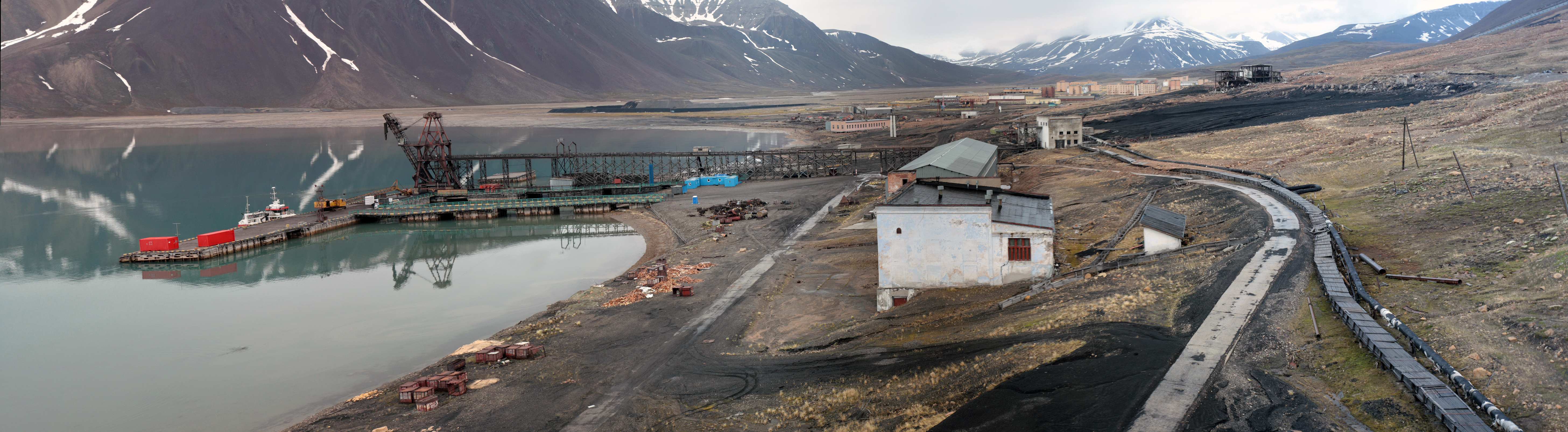 Panorama of Pyramiden, Svalbard